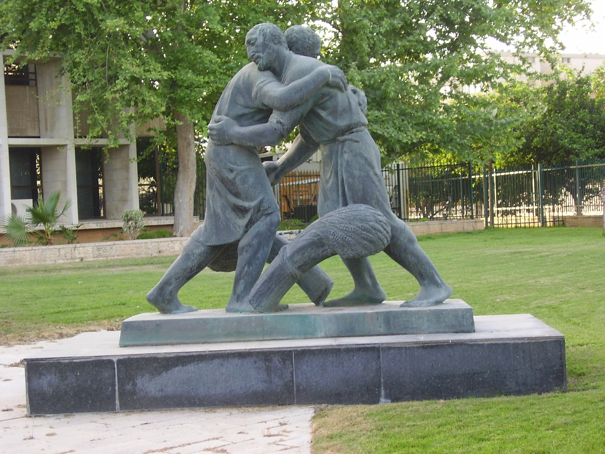 Brotherhood sculpture by Nathan Rapoport